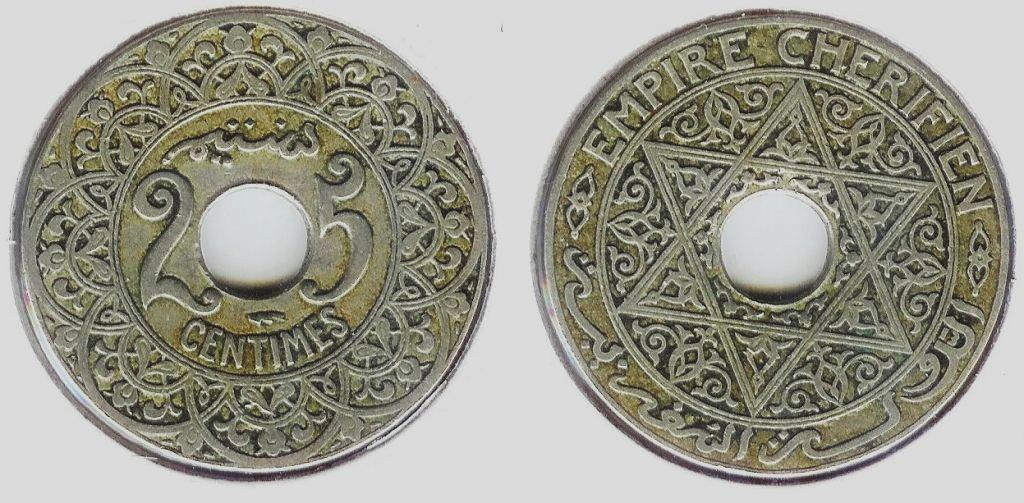 Scan of a 1924 Morocco 25 centimes with Thunderbolt privy mark, KM#34.2 Personally owned coin.